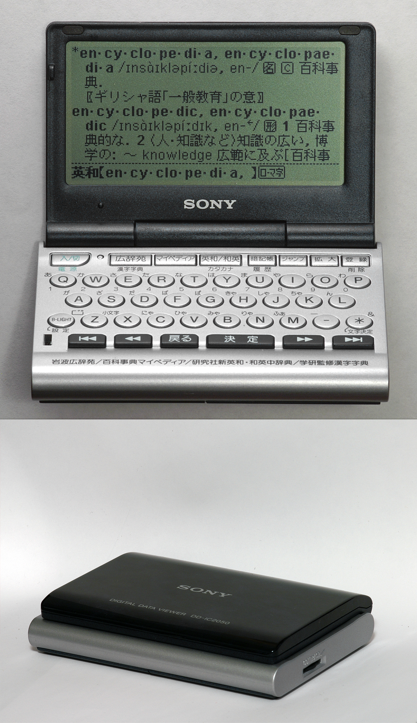 Japanese electronic dictionary. Photos taken by Tokugawapants using Konica-Minolta Maxxum 5d with Minolta AF 100mm Macro lens.